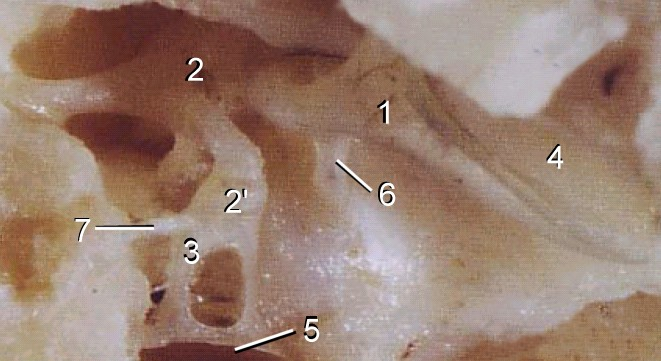 Auditory ossicles in the bovine